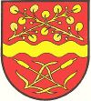 Coat of arm of Edelbach bei Feldbach